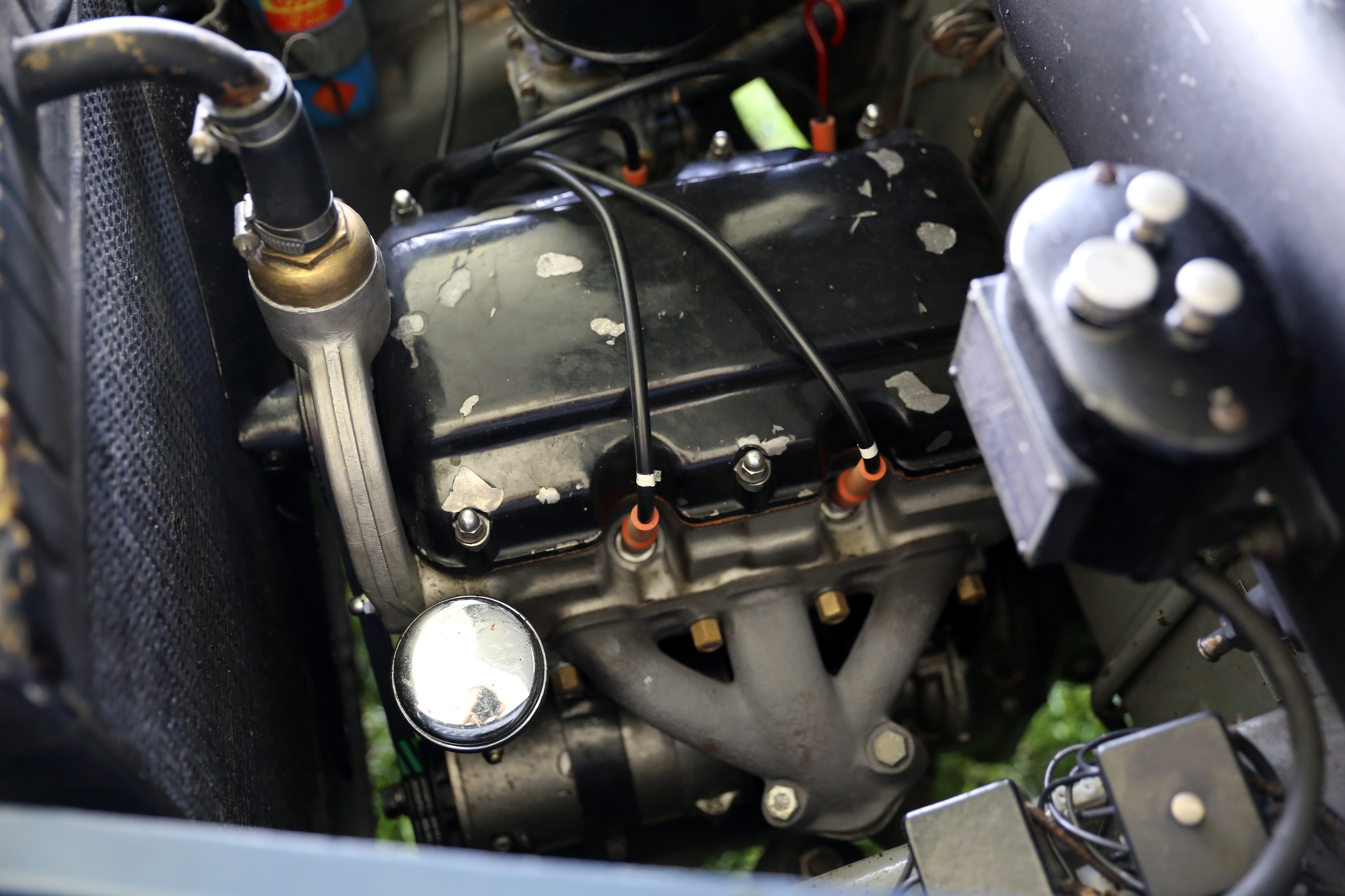 Tipo 100B V4 engine of a 1952 Lancia Ardea at the 2013 Greenwich Concours d'Elegance. 903cc and 30hp, this engine was used in the Series 4 Ardeas (1949-1952).